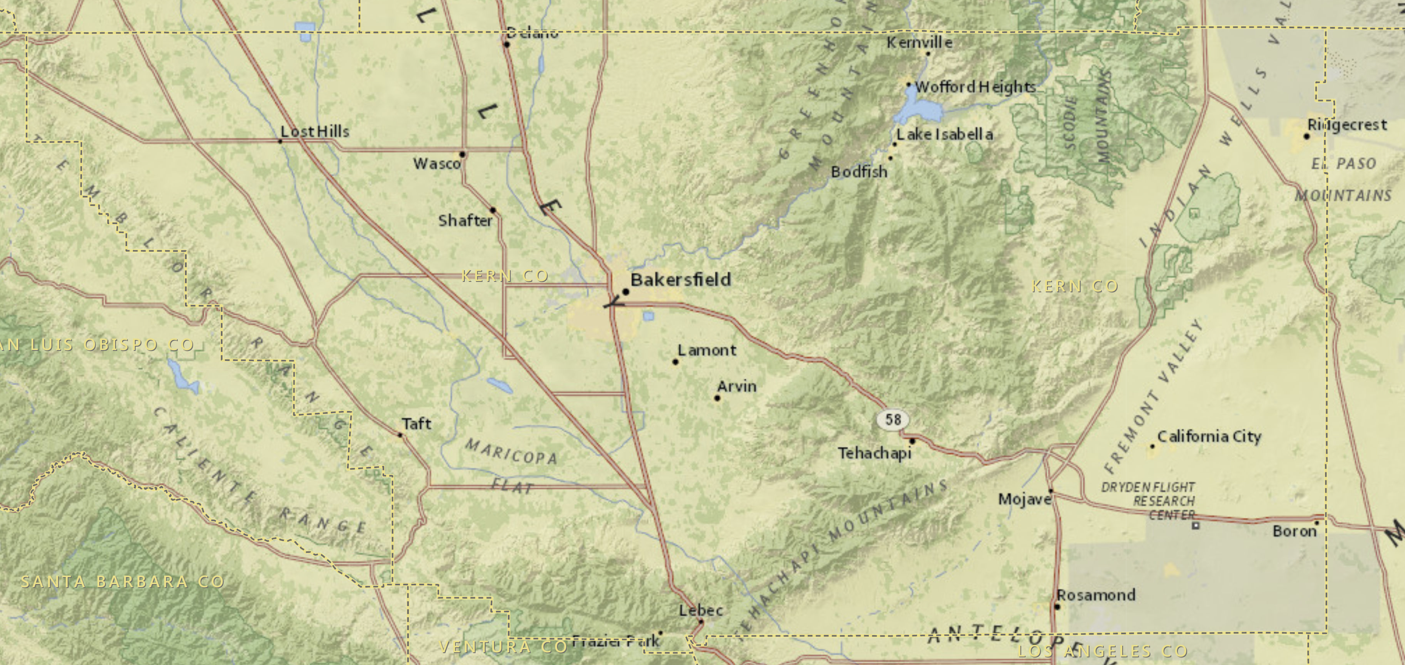 Map of Kern County, California. Section of "The Natinoal Map" by USGS. Base map: "National Geographic".